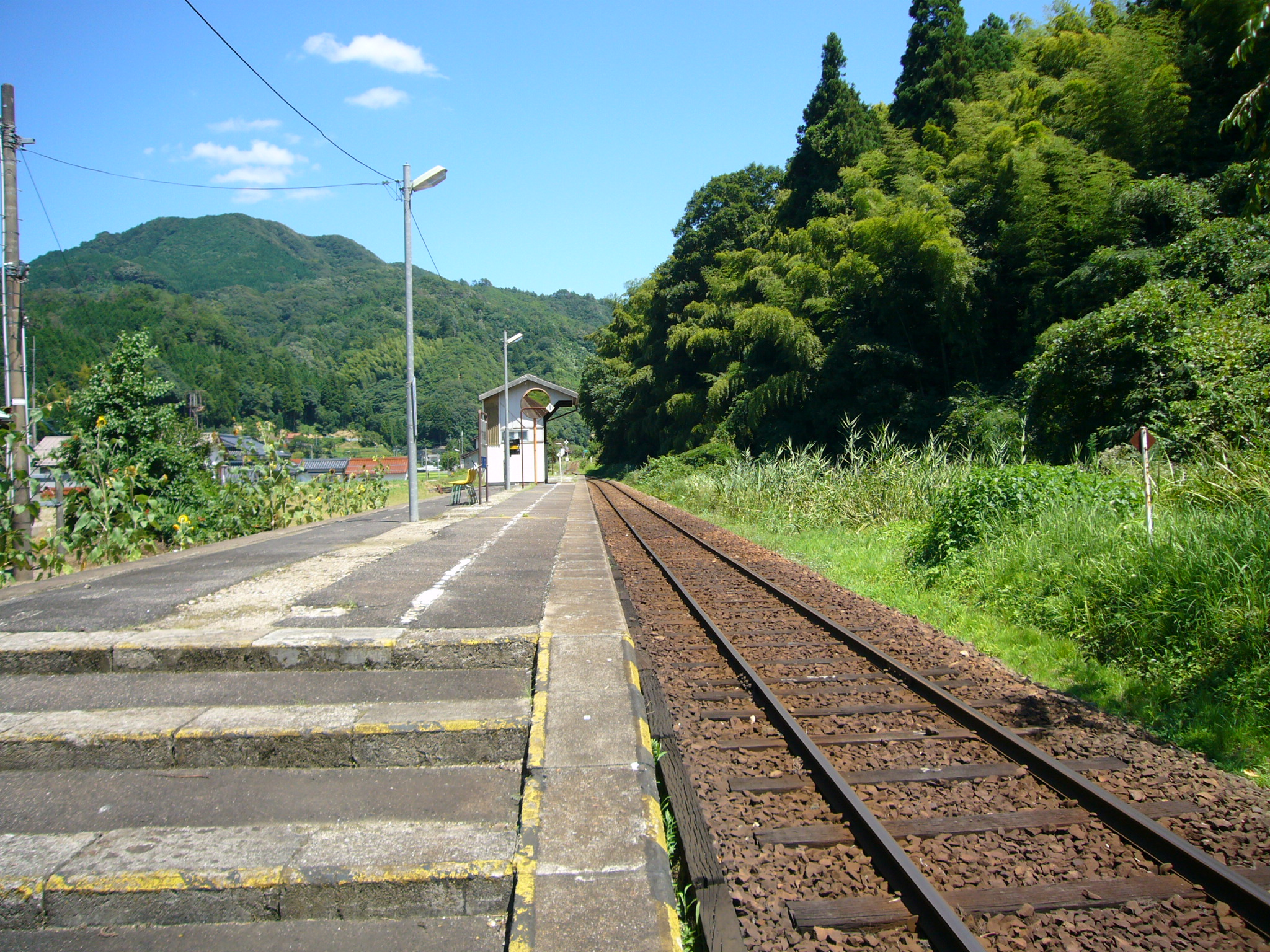 Shimokuno Station railway platform